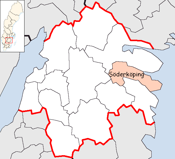 Söderköping Municipality in Östergötland County Designed by me. Mere outlines are a PD source from